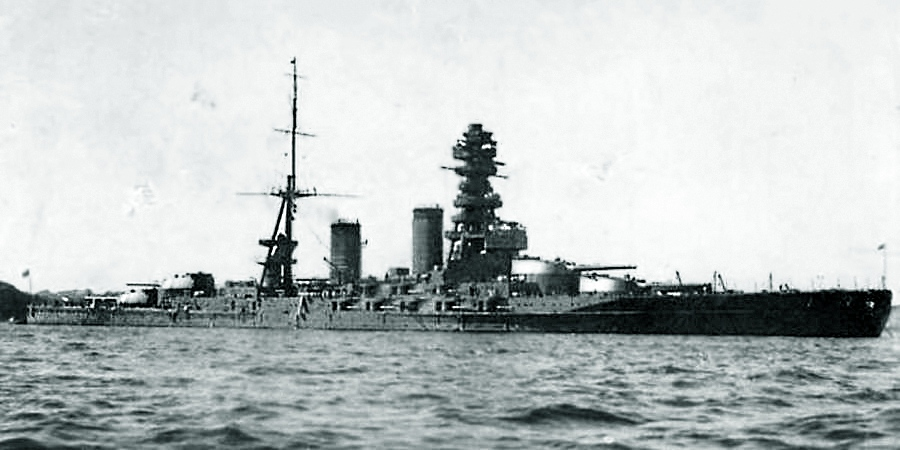 Mutsu in 1921–22 after completing outfitting